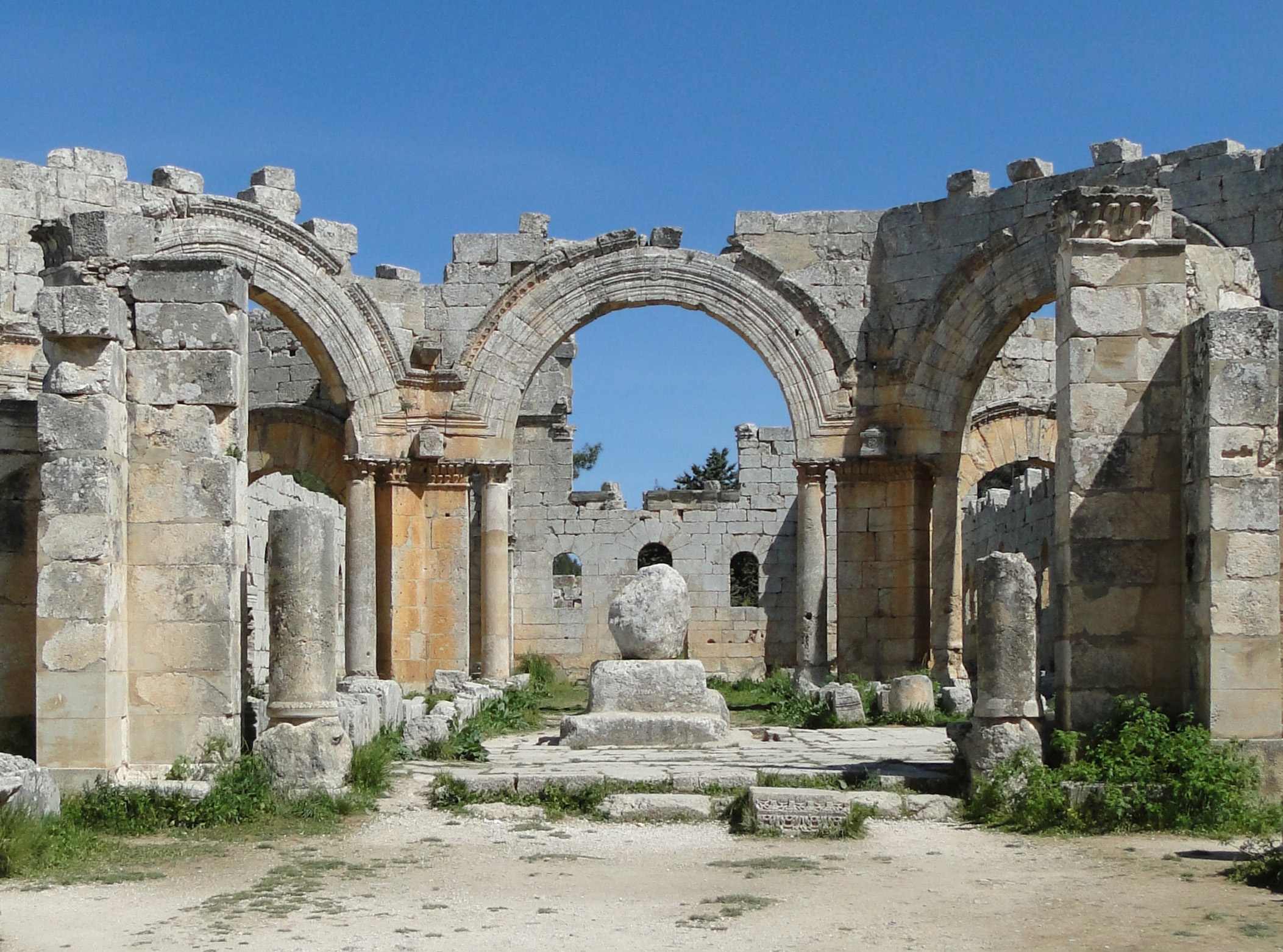 View of the column in the Church of Saint Simeon Stylites, Syria